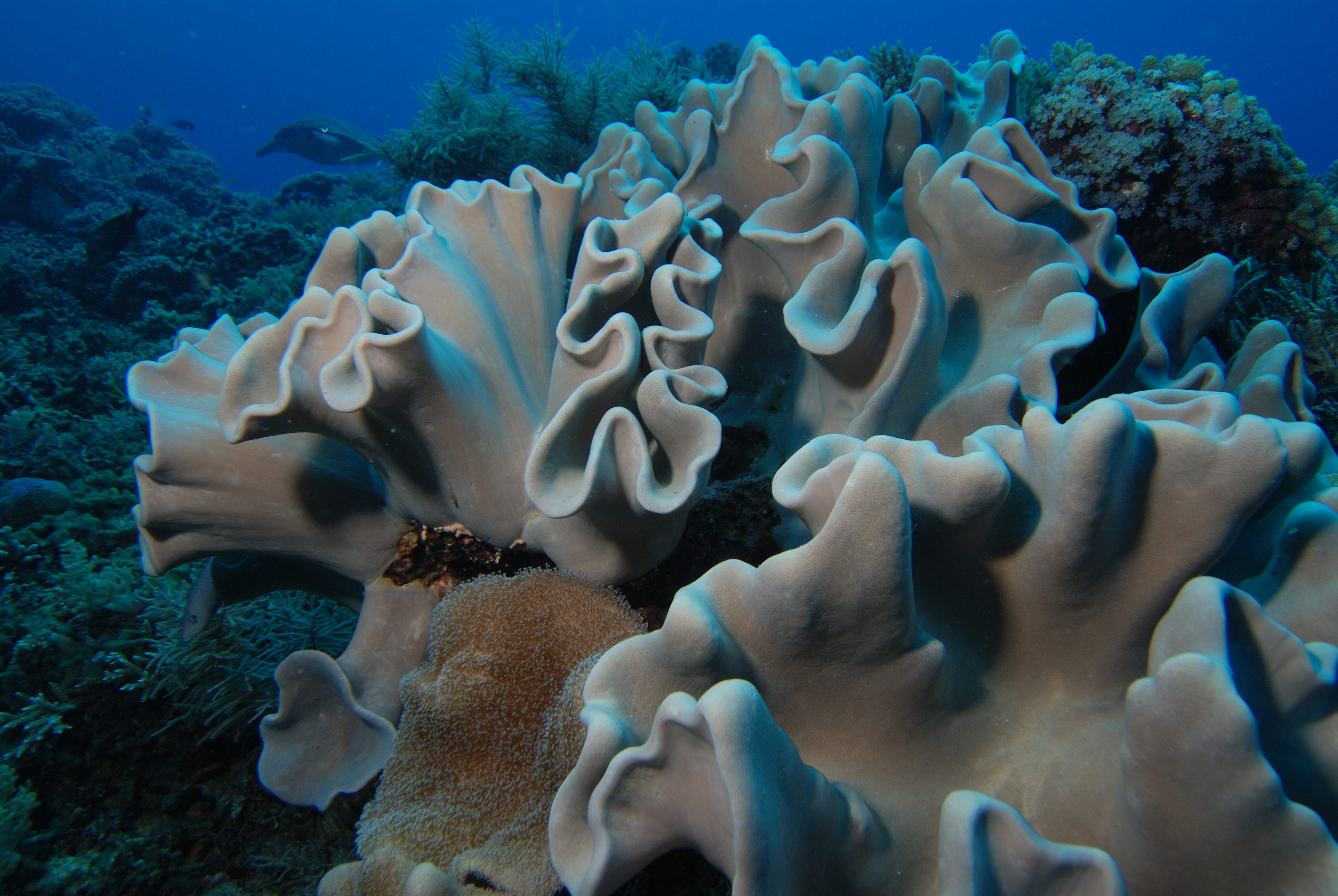 Sarcophyton trocheliophorum